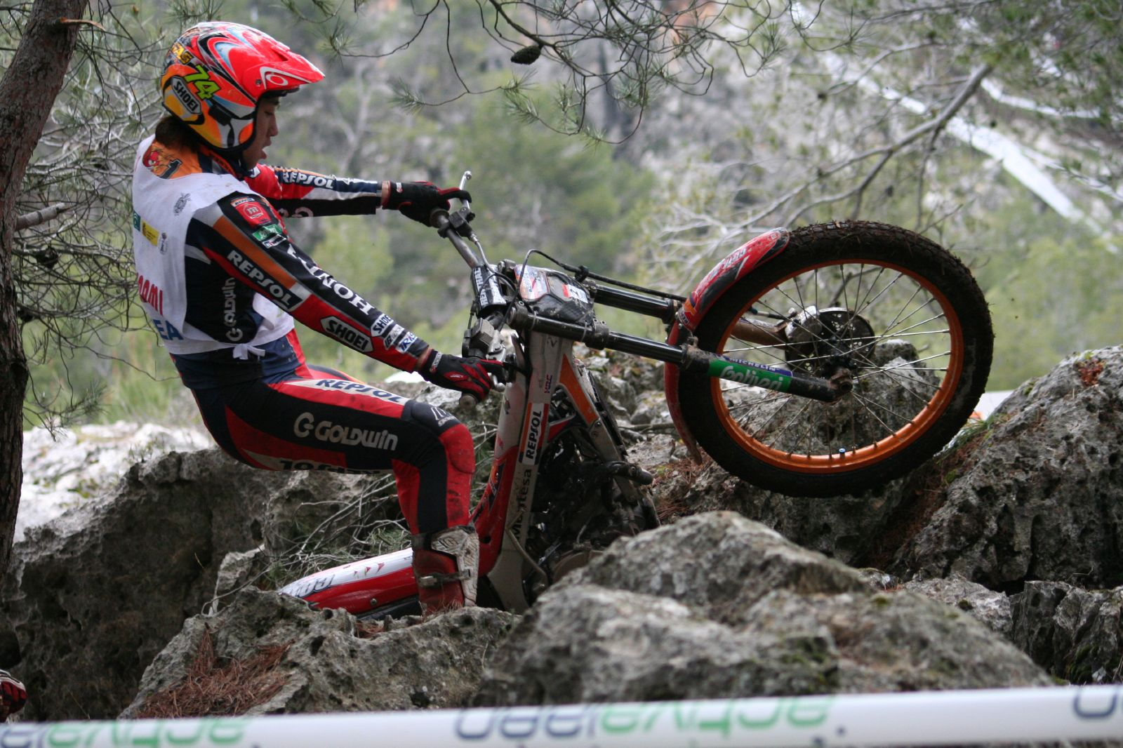 la montesa arriba Takahisa Fujinami @ FIM Trial World Championship 2007 R1(Spain)